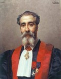 French chemist Henri Moissan (1830-1914) by Paul Saïn (1853-1908)